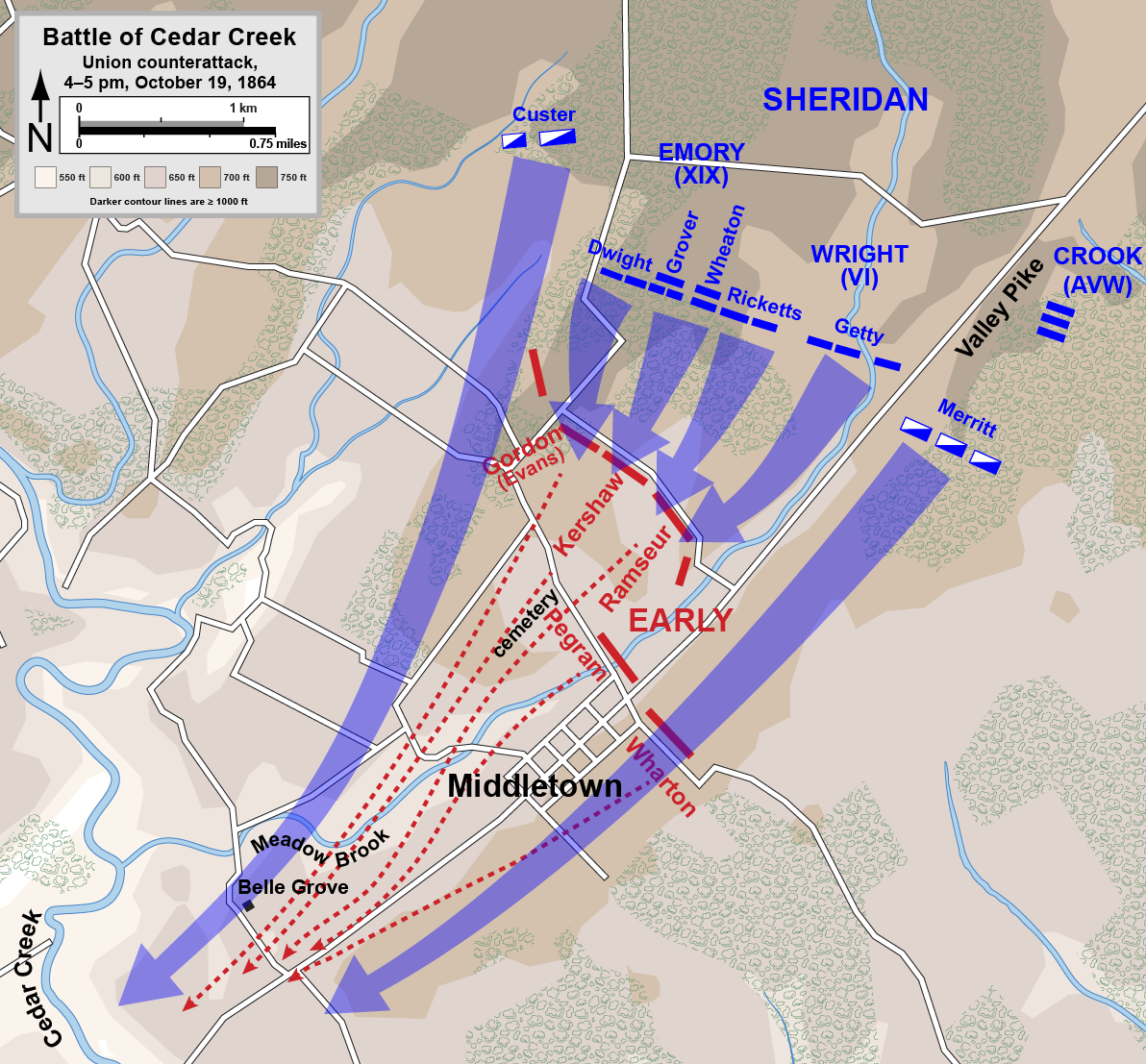 Map of the Battle of Cedar Creek of the American Civil War, 2 of 2, drawn in Adobe Illustrator CS5 by Hal Jespersen. Graphic source file is available at